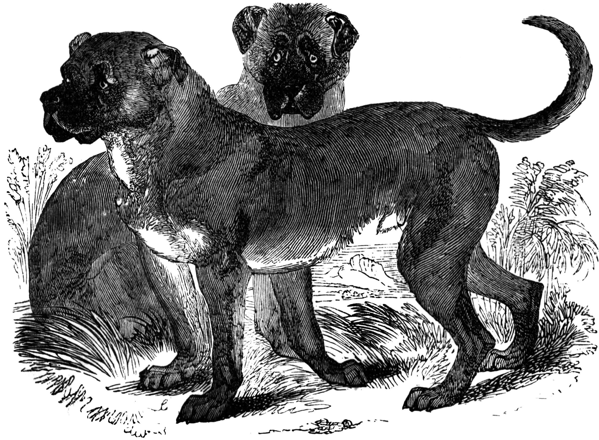 Cuban Mastiff. A dog breed native to Spain. "The present beed is a strong and courageous race, of moderate intelligence: they are used as watch-dogs, and are also in request for bull-fights and other Spanish exhibitions." S. G. Goodrich